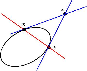 Construction of polar via tangents to conic section.